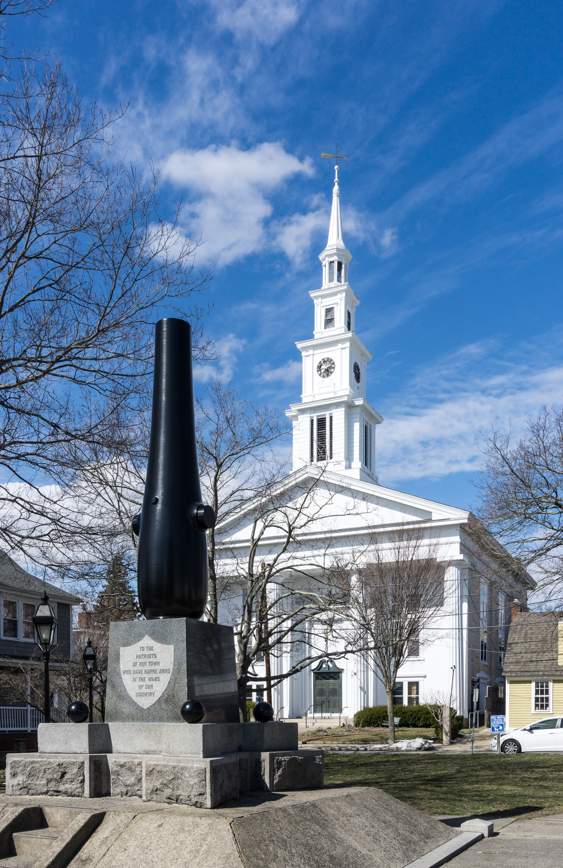 Background: First United Methodist Church aka Warren United Methodist Church and Parsonage, 27 Church Street. Foreground: Civil War memorial in Warren Common.